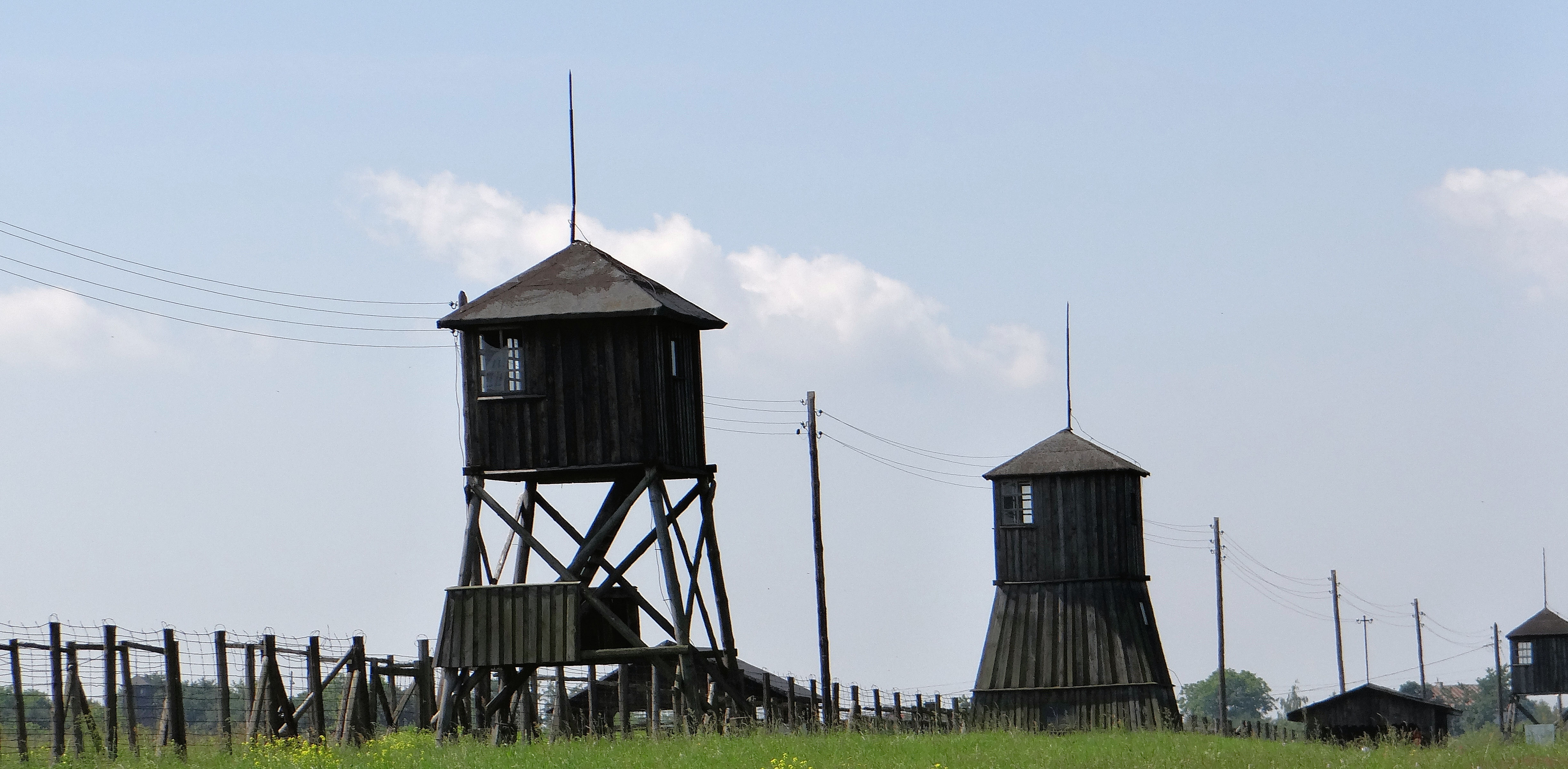 Majdanek concentration camp